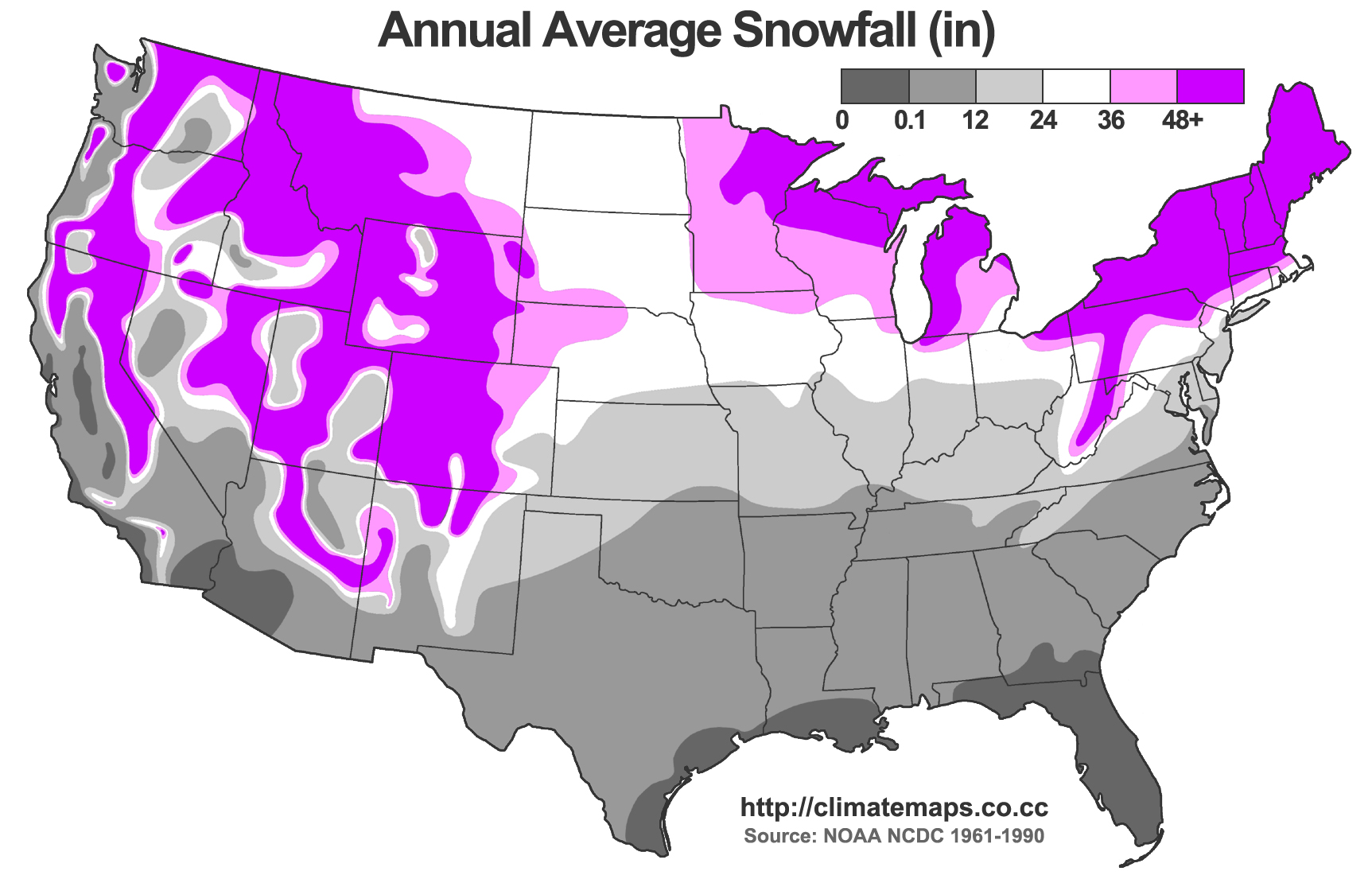 This map shows the average annual snowfall of the United States. The scale is displayed in units of inches, based on the following colors. Black: 0-0.1 in. Dark gray: 0.1-12 in. Light gray: 12-24 in. White: 24-36 in. Pink: 36-48 in. Purple: 48 in and greater. Areas receiving no measurable snowfall are also shown in white. All data are based on the National Climatic Data Center 1961-1990 dataset. Map created by Alex Matus